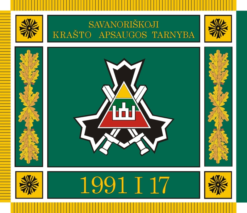 Flag of the National Defence Volunteer Force (Lithuania).